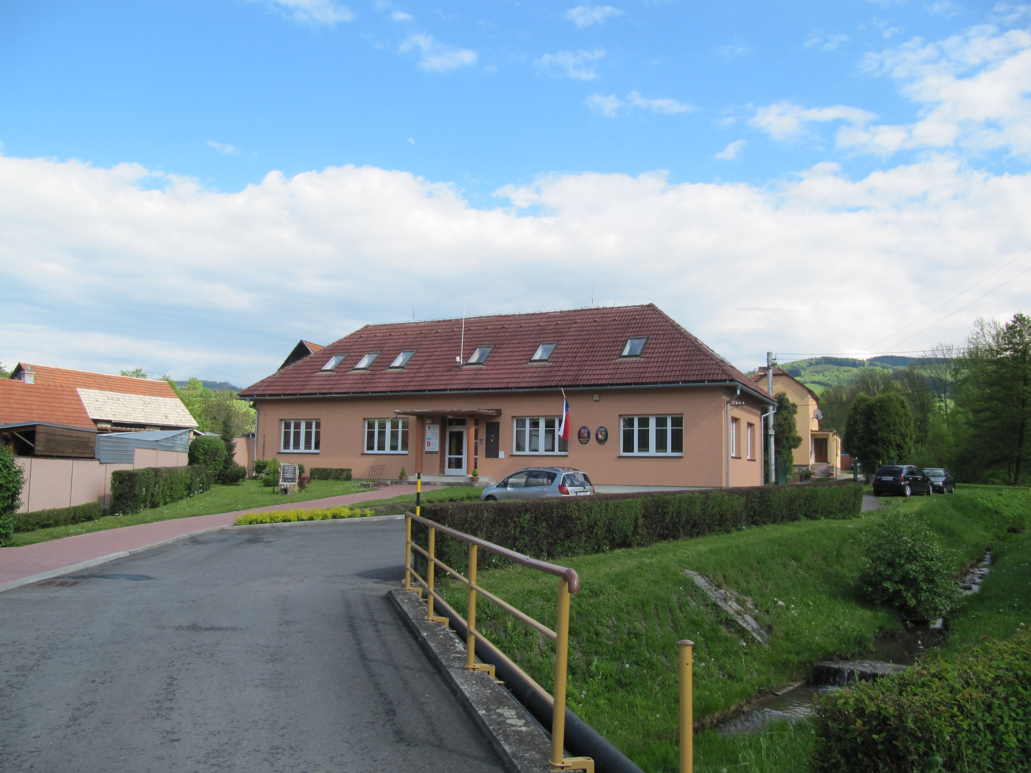 Návojná, Zlín District, Czech Republic.